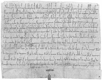 Charter of Alan of Galloway to John of Newbiggin, c. June 1216 × c. October 1217.